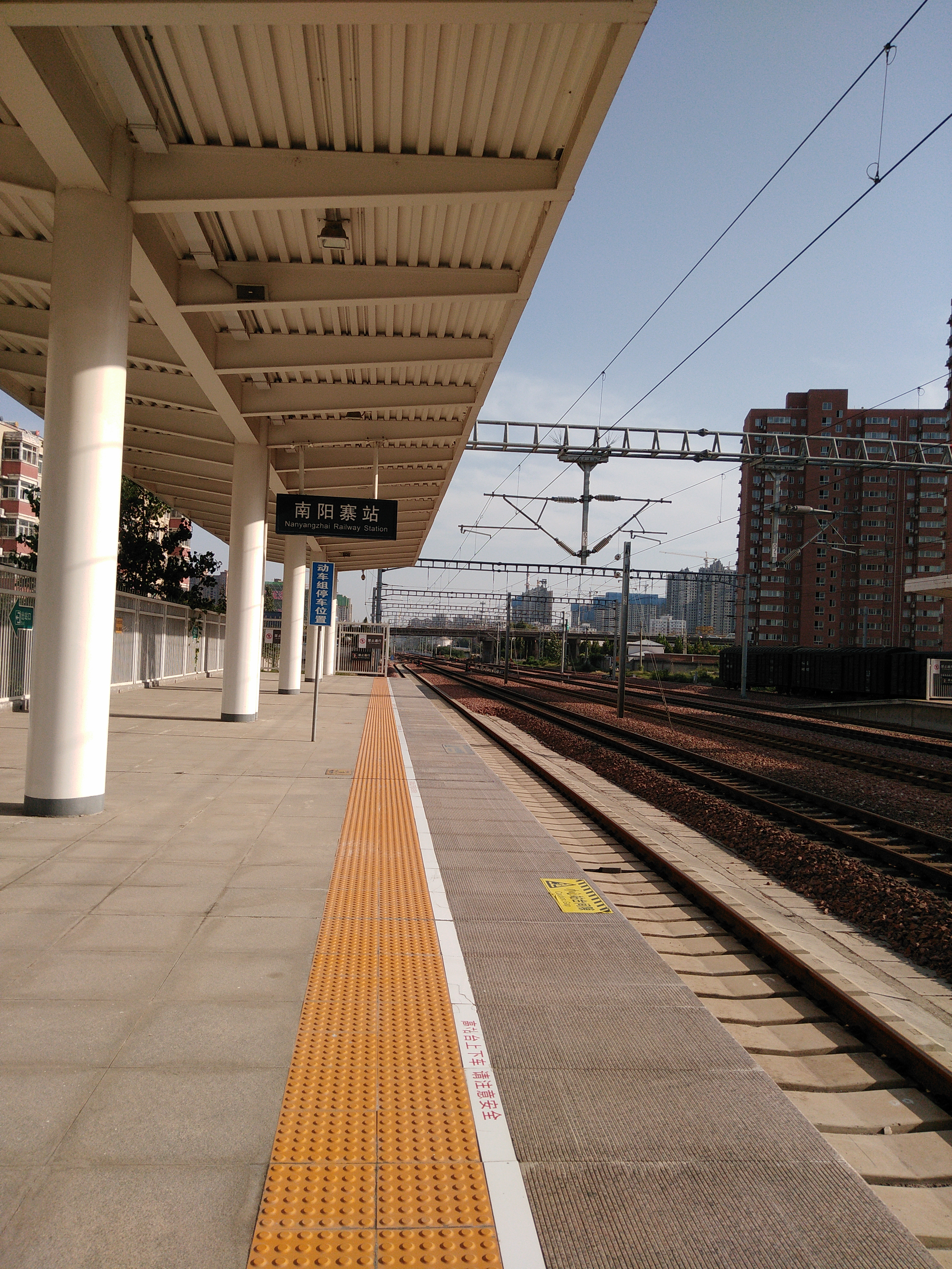 Platform of NANYANGZHAI Station of Zhengzhou-Jiaozuo Intercity Railway, looking towards the direction of ZHENGZHOU.